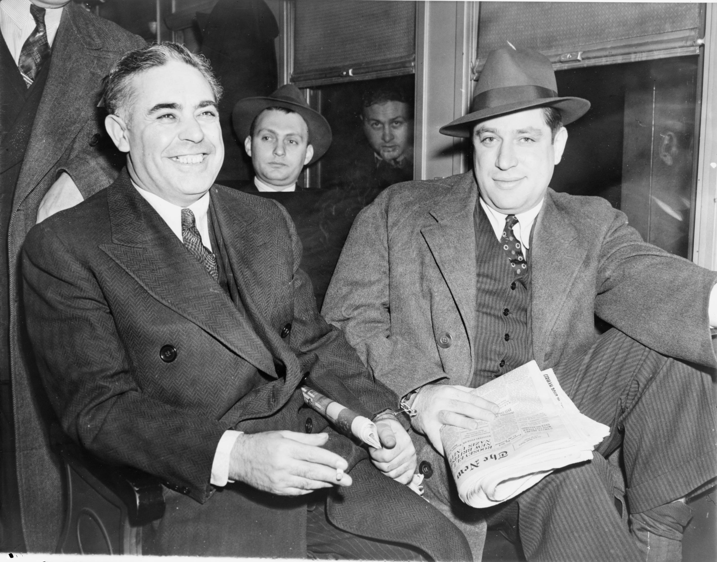 Louis Capone (left) and Emanuel "Mendy" Weiss (right), American mobsters of the 1930s,.